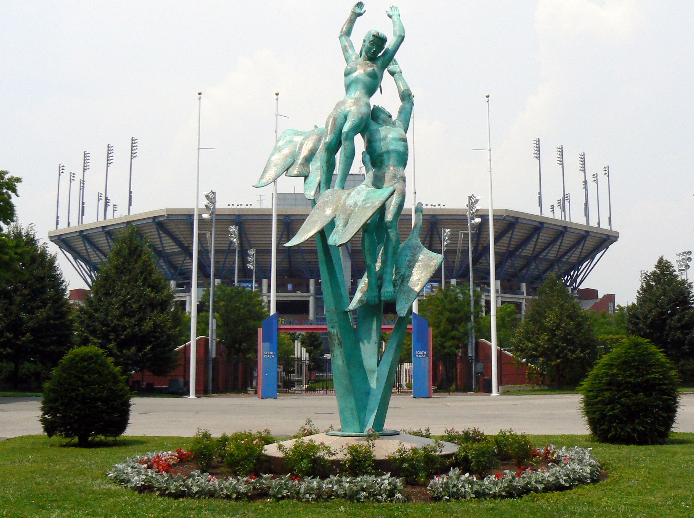 Singer Bowl, now a tennis stadium Author: Jonathan Reich Other versions: 150px Data from Smithsonian Institution The Freedom of the Human Spirit, (sculpture) Artist: Fredericks, Marshall M., 1908-1998, sculptor. Bedi-Makky Art Foundry, founder. Title: The Freedom of the Human Spirit, (sculpture). Date: 1964. Medium: Sculpture: bronze; Base: pink granite. Owner: Administered by City of New York, Department of Parks and Recreation, New York, New York Located Flushing Meadow-Corona Park, Flushing, New York